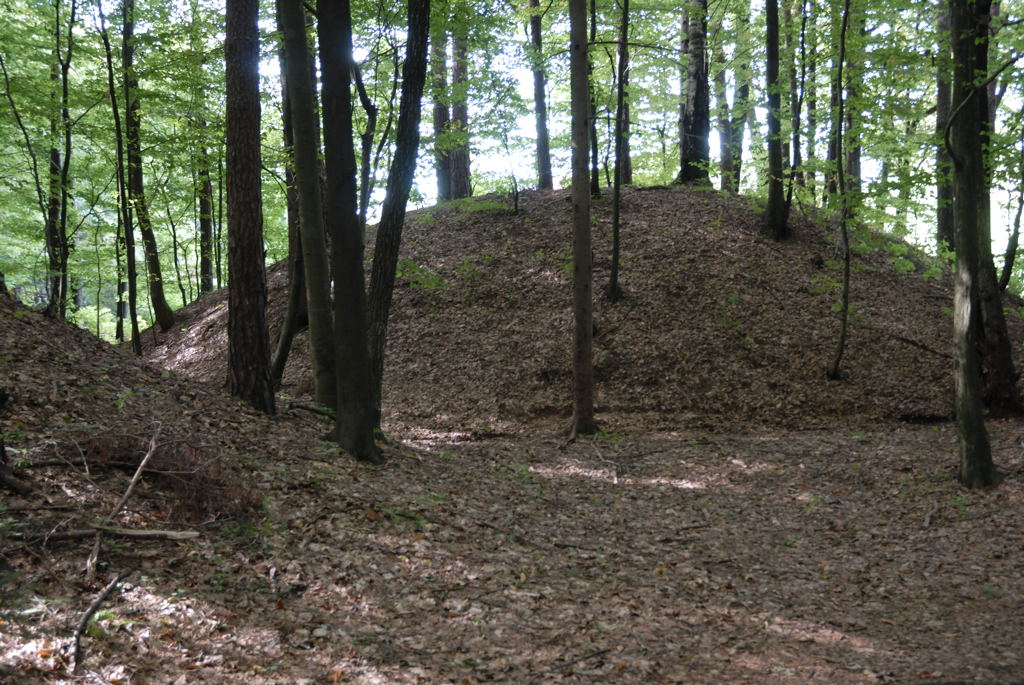 Hallstatt-era tumulus in the Sulm valley necropolis (Southern Styria, Austria) This media shows the Geschützter Landschaftsteil in Styria with the ID GLT_1470.